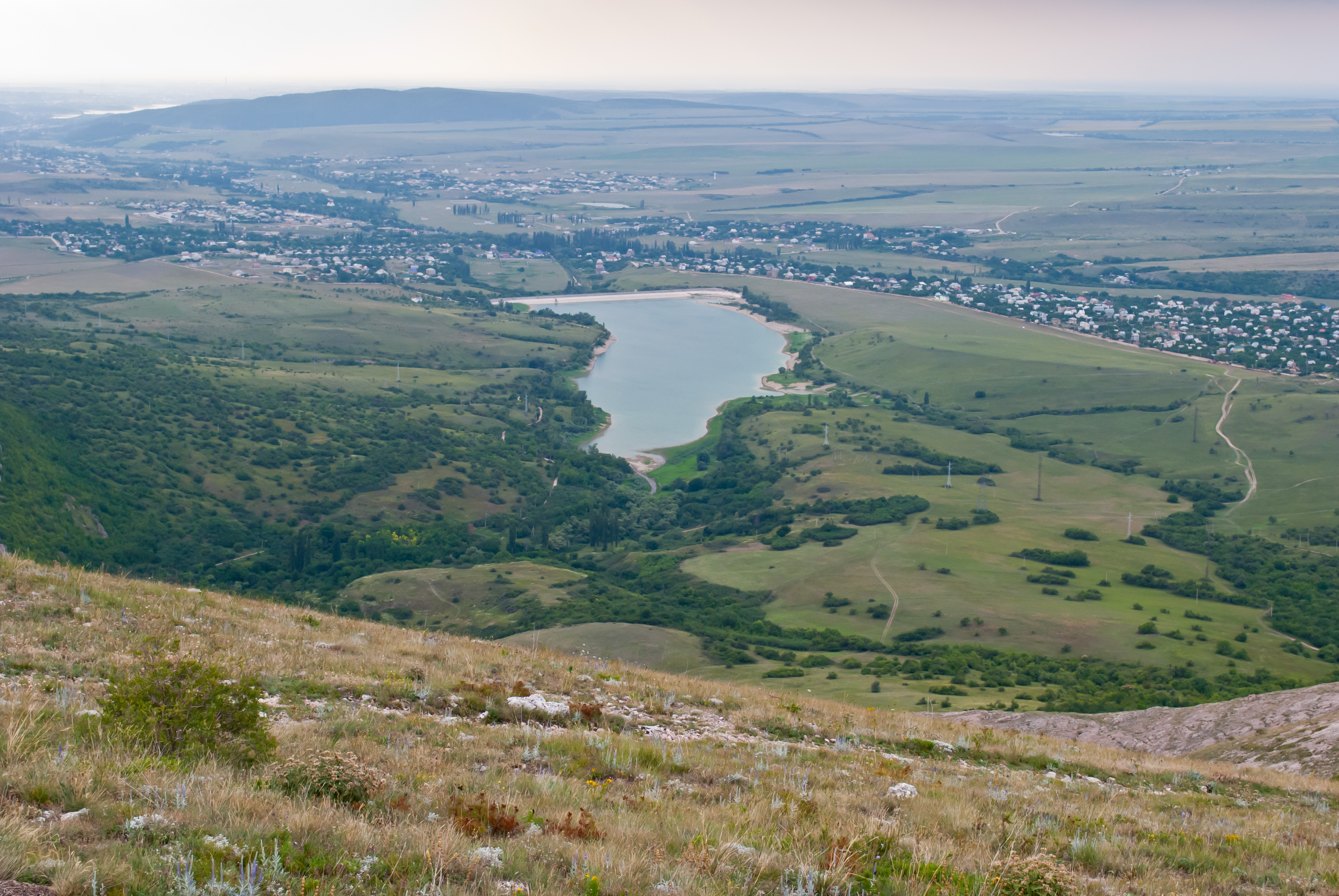 Ayan reservoir and the village Zarichne viewed from the northeast slopes of the Chatyr-Dag mountain.